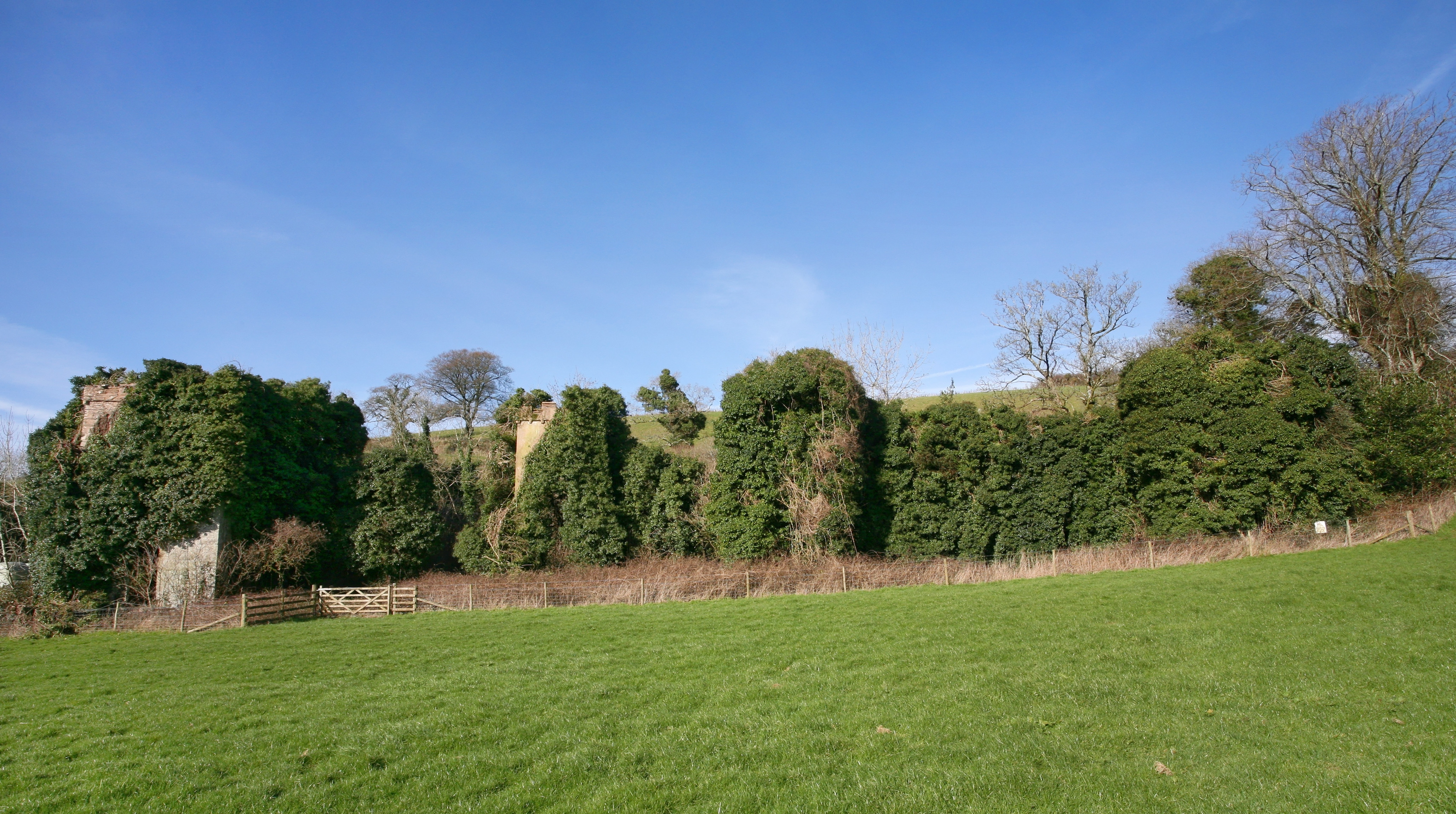 Fowlescombe Manor House or Mansion